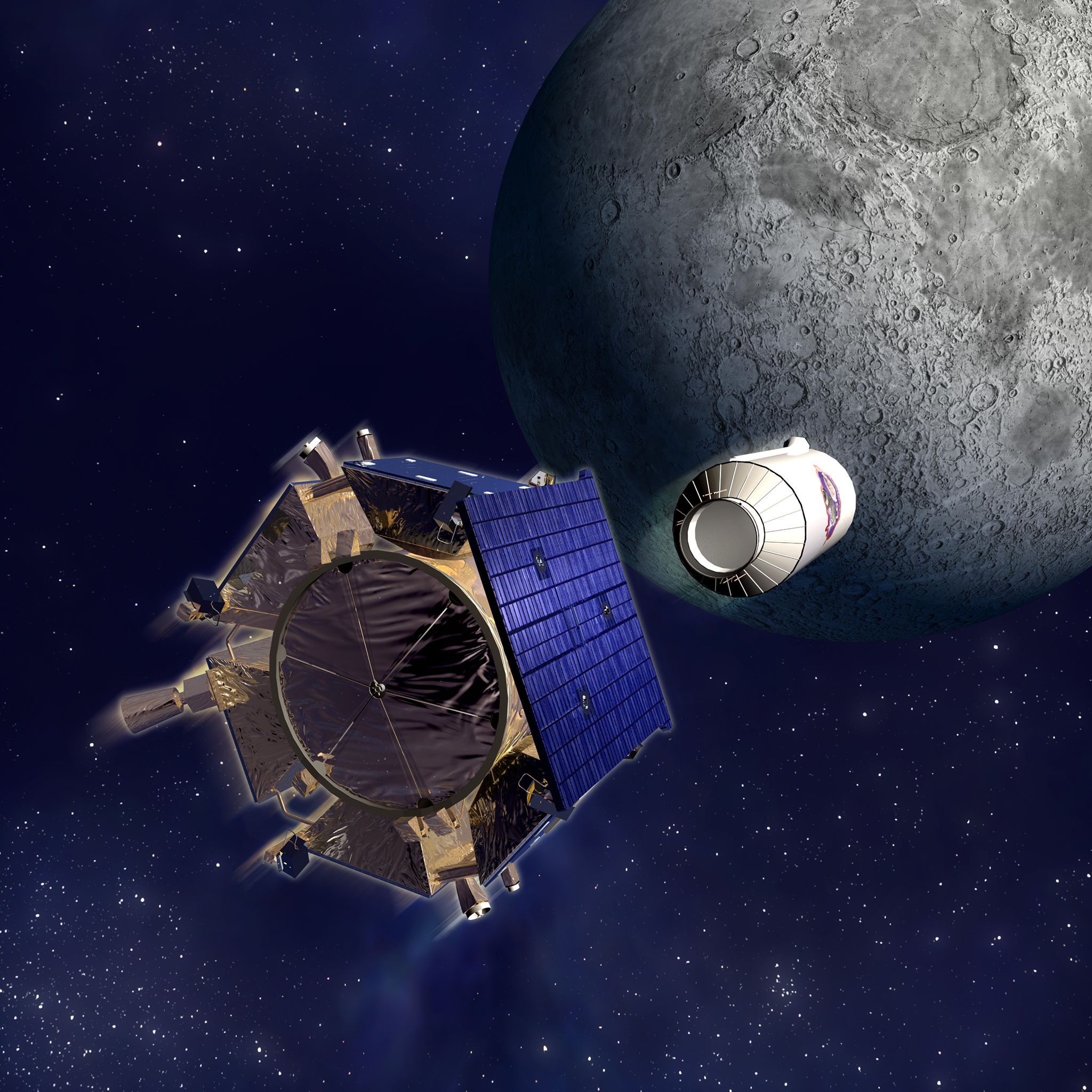 "This is an artist's illustration of the Lunar Crater Observation and Sensing Satellite (LCROSS) Centaur rocket stage and shepherding spacecraft as they approach impact with the lunar south pole on October 9, 2009." LCROSS spacecraft separates from Centaur stage